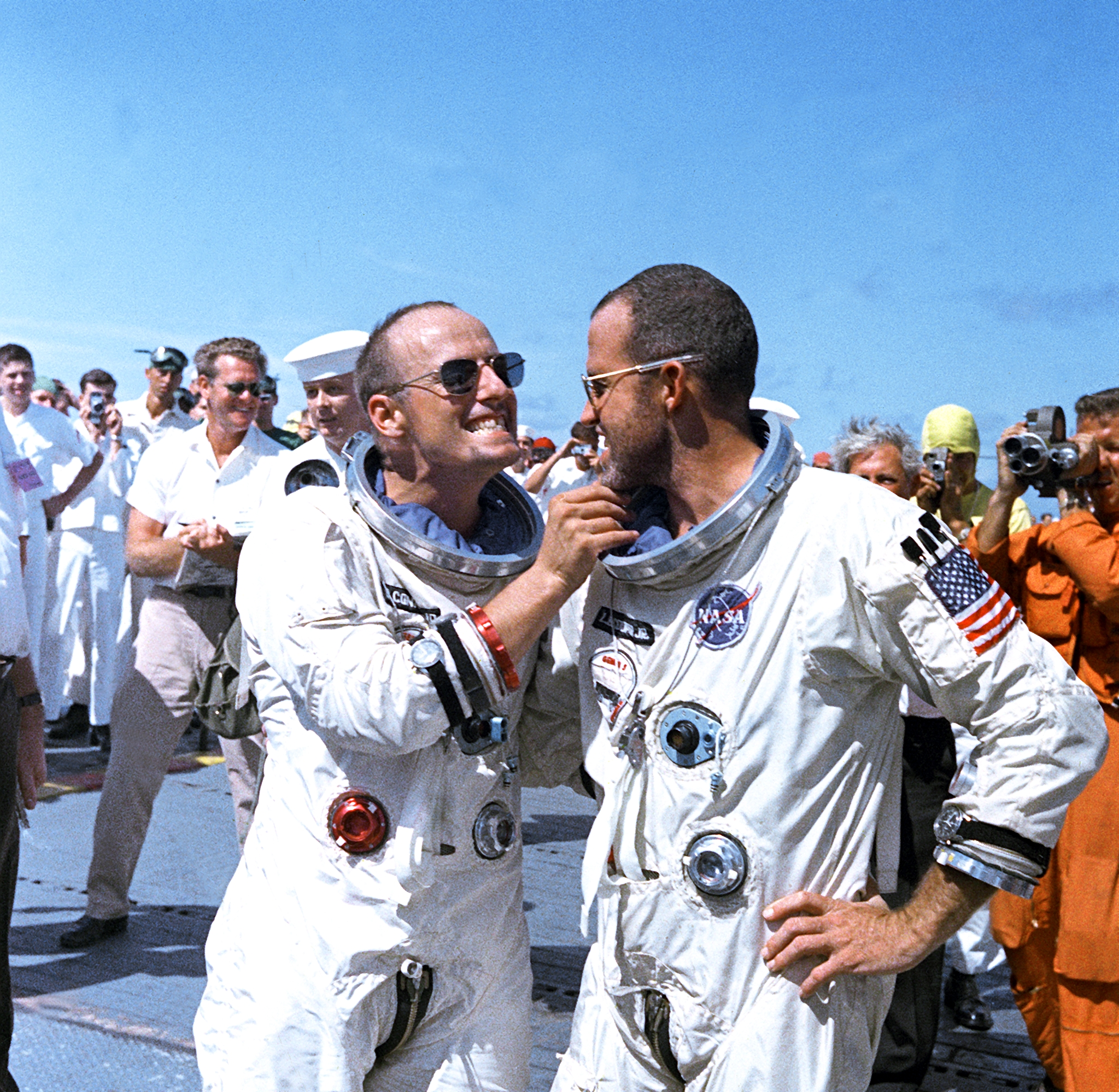 S65-46638 (29 Aug. 1965) --- Astronaut Charles Conrad Jr. tweaks astronaut L. Gordon Cooper's eight-day growth of beard for the cameramen while onboard the prime recovery vessel after their Gemini-5 flight.